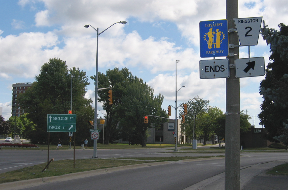 Eastern terminus of the Loyalist Parkway in Kingston, Ontario at the intersection of Bath Road and Princess Street.